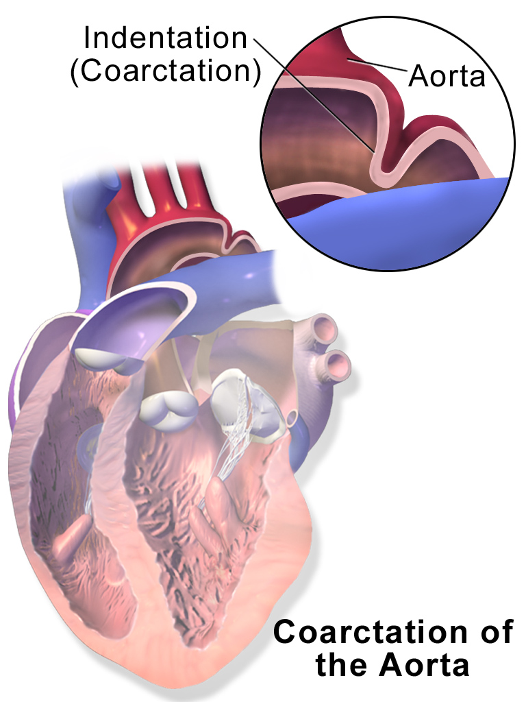 Coarctation of the Aorta. See a related animation of this medical topic.